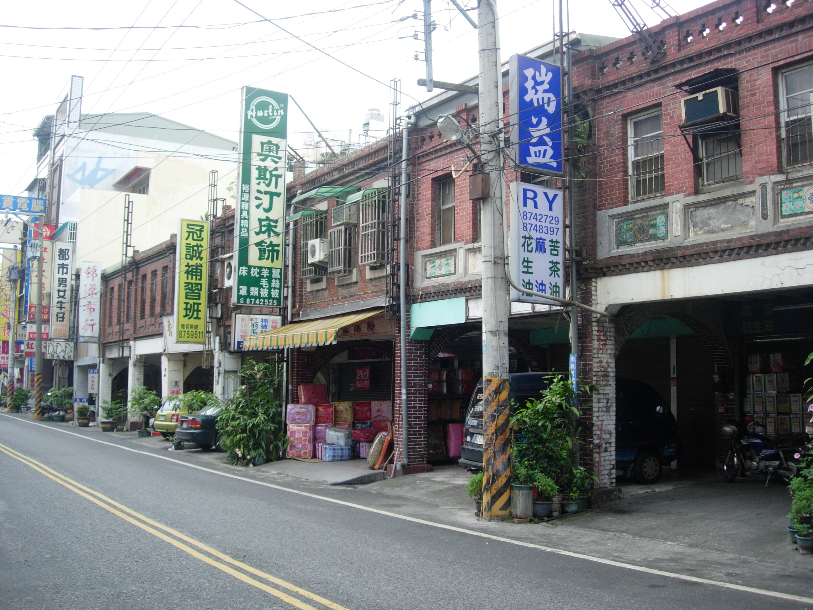 Tienchung Old Street